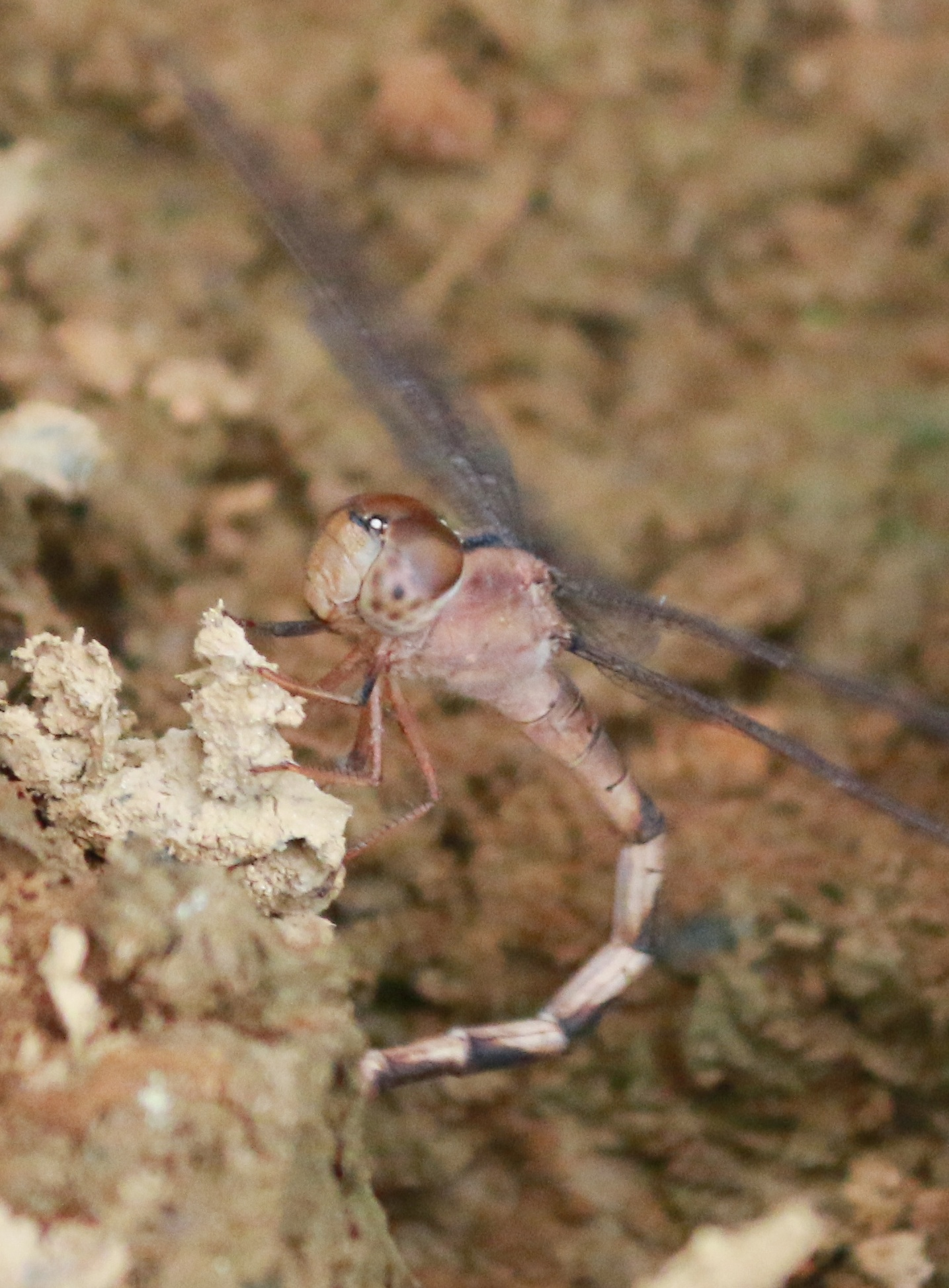 Gynacantha dravida,laying eggs